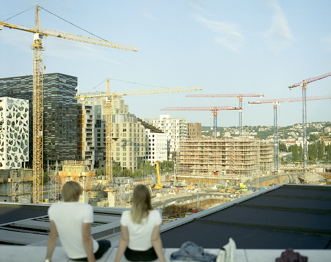 Panorama view of Bjørvika, August 2017, from the roof of the Oslo Opera House